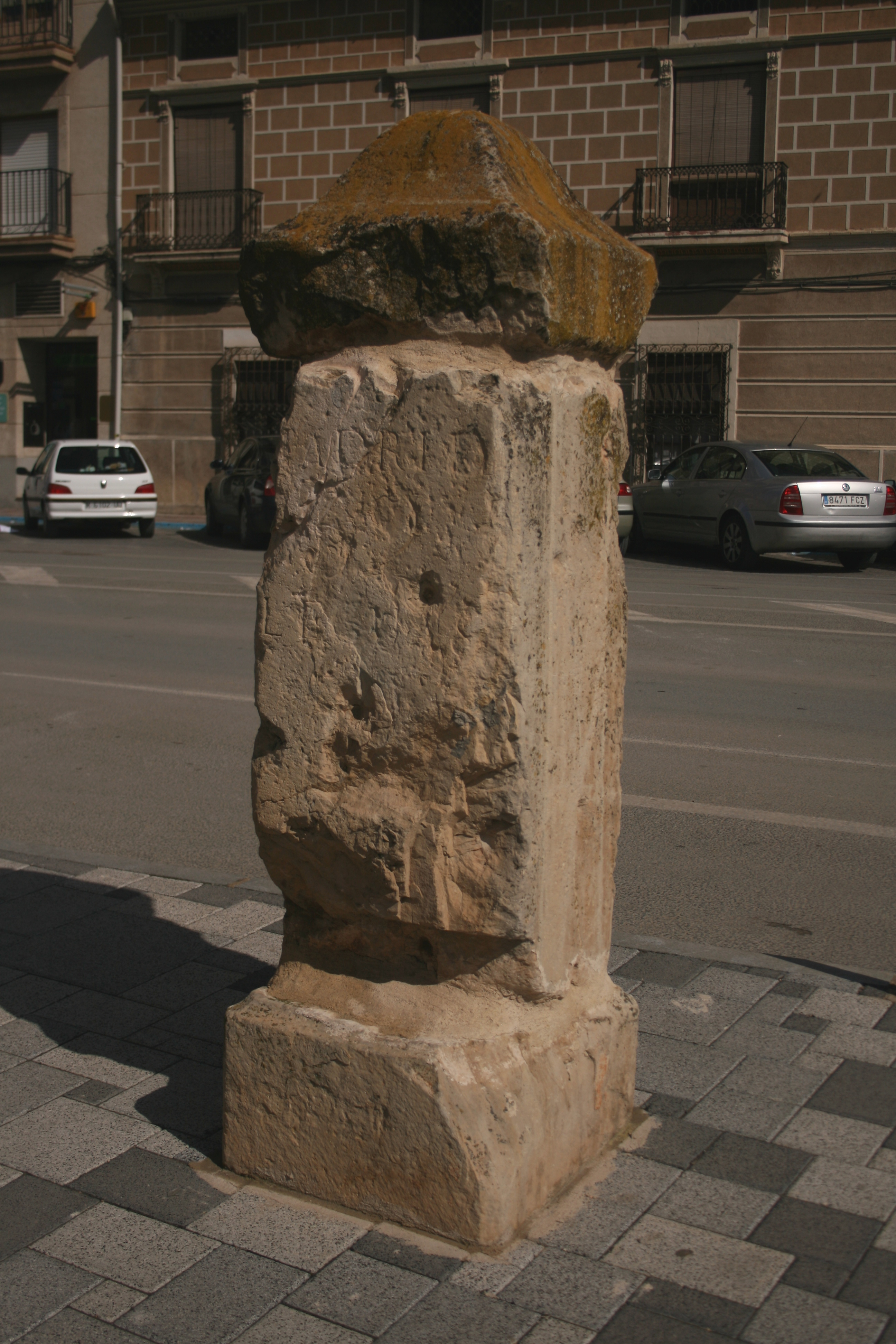 Roman Milestone - La Roda Spain.